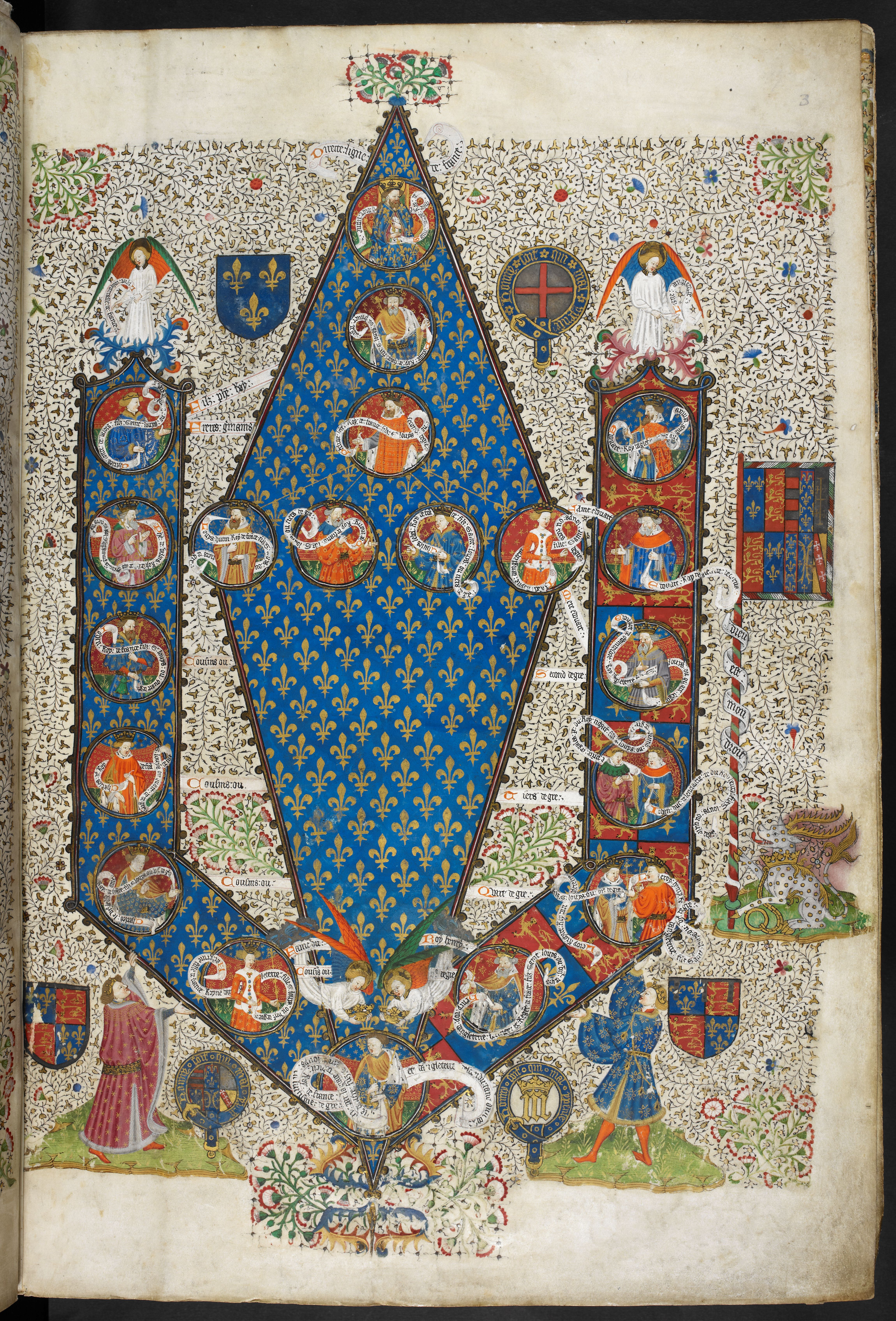 Genealogical table; page from BL Royal MS 15 E vi, f. 3r (the "Talbot Shrewsbury Book"). Held and digitised by the British Library.